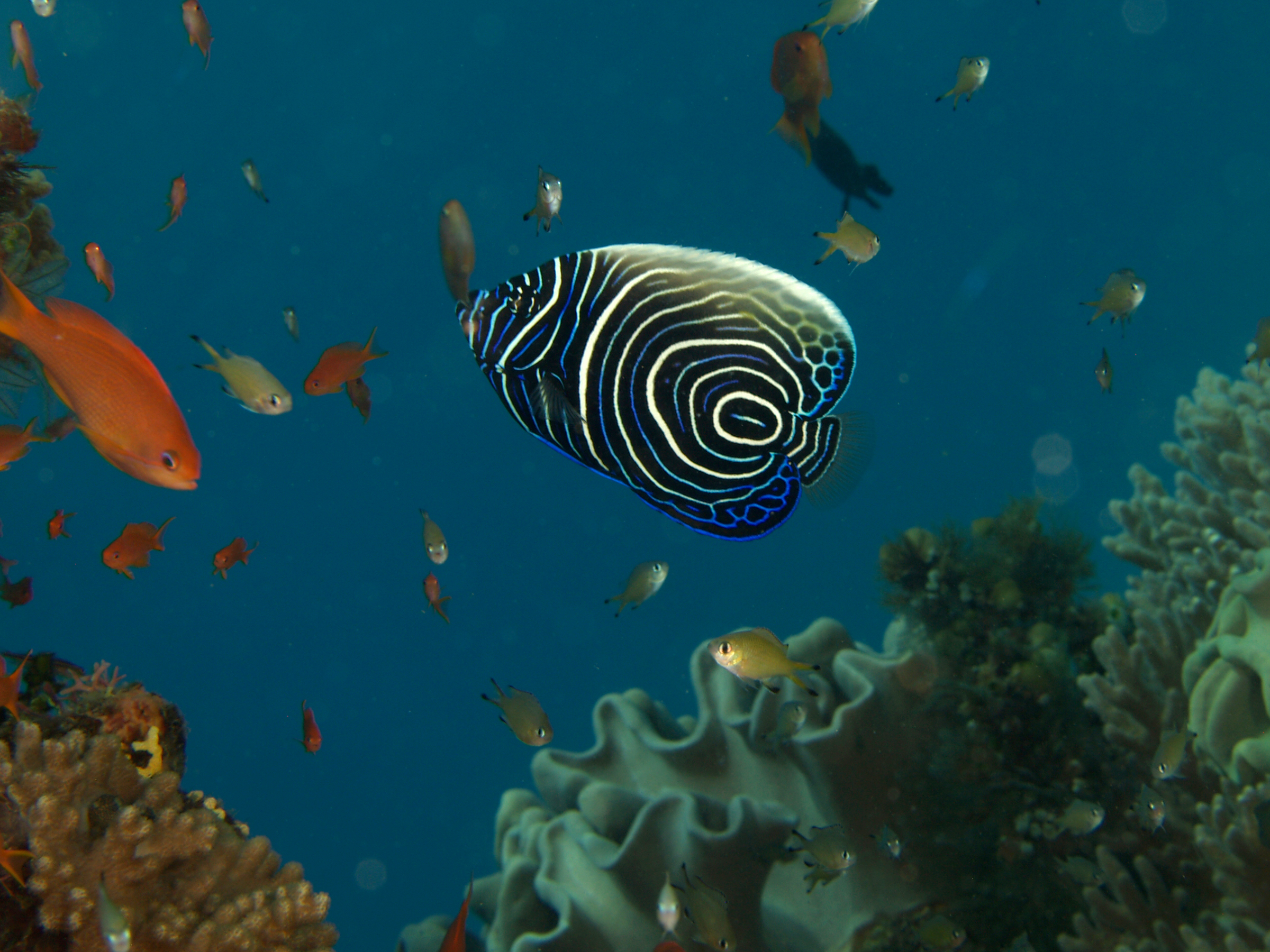 Pomacanthus imperator (Emperor angelfish) juvenile in East Timor